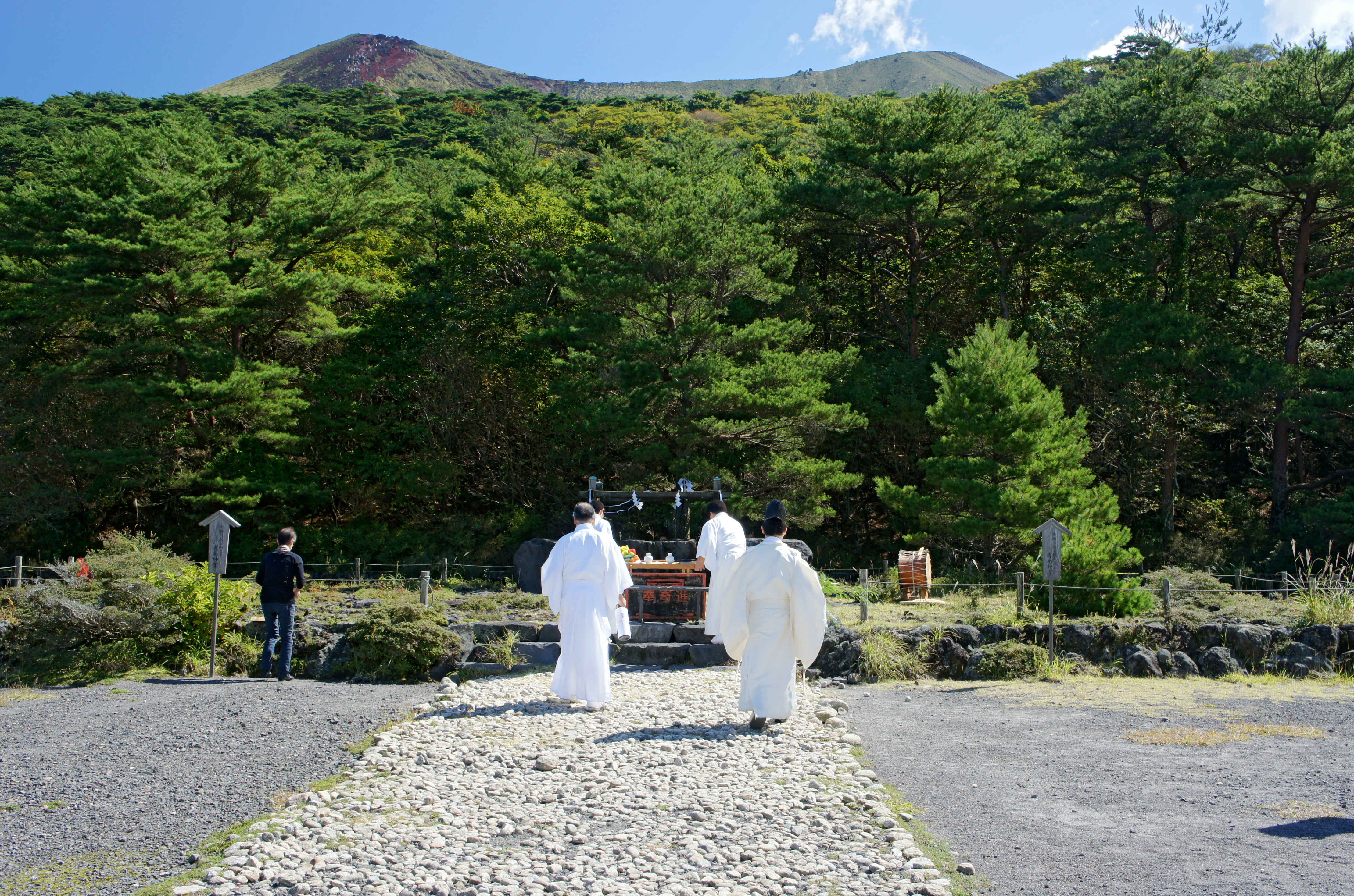 Takachiho-gawara Furumiya-ato Shrine in Kirishima, Kagoshima prefecture, Japan. Here is a Sacred ground of the descent to earth of Ninigi-no-Mikoto (the grandson of Amaterasu).